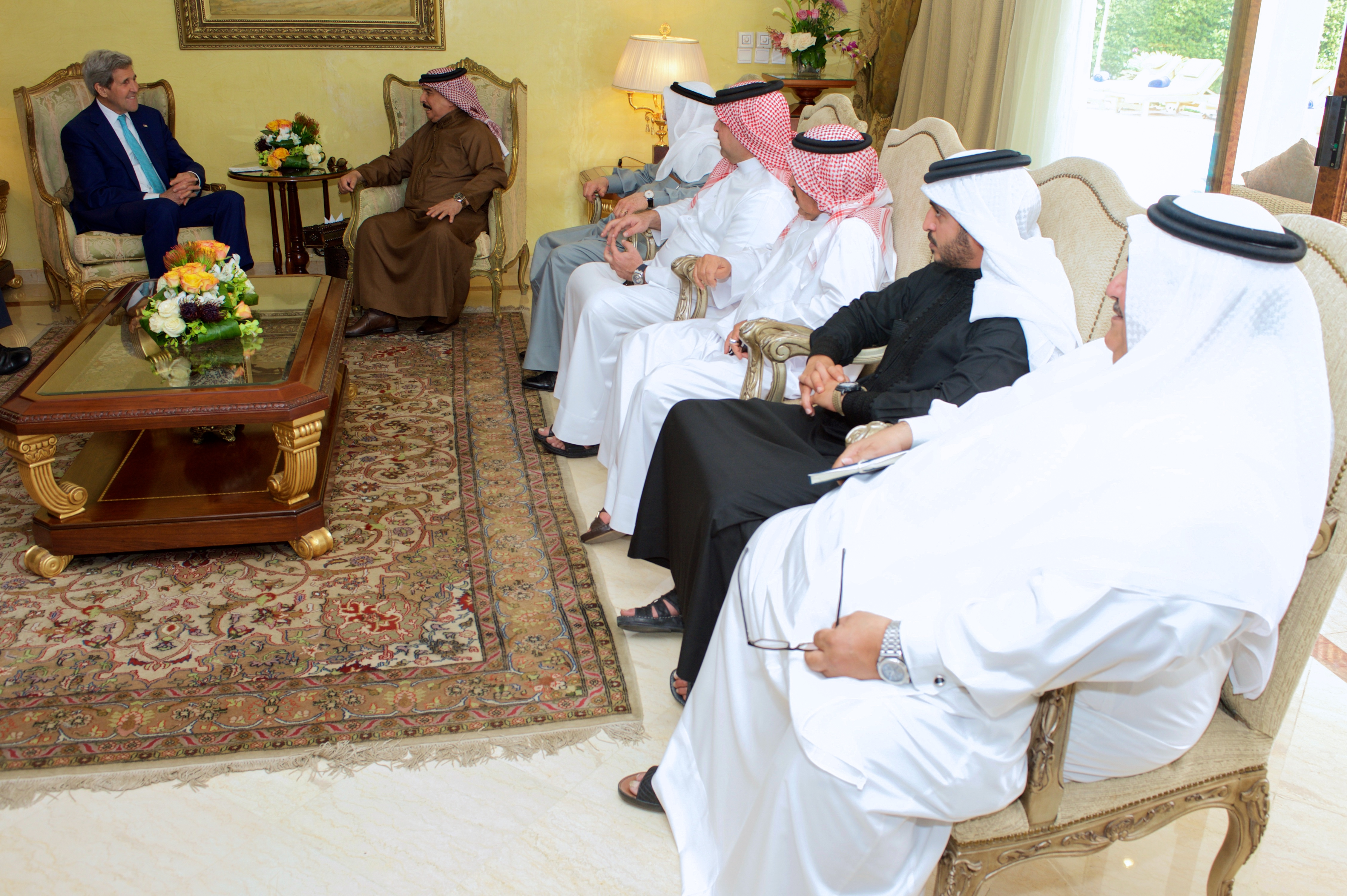 U.S. Secretary of State John Kerry sits with King Hamad bin Isa Al Khalifa of Bahrain and his advisers on March 14, 2015, in Sharm el-Sheikh, Egypt, at the outset of a bilateral meeting amid an Egyptian development conference. [State Department Photo/Public Domain]